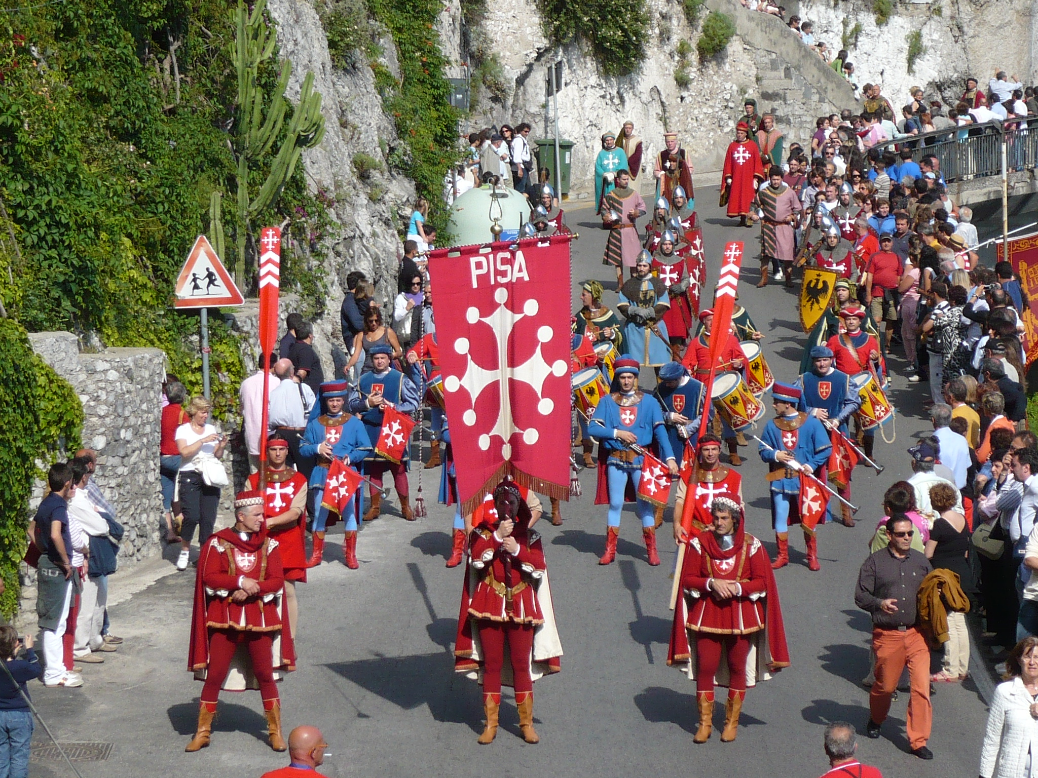 Historical Procession of Pisa during the 53° Regatta of the Ancient Italian Maritime Republics. Amalfi, the 8th of June 2008.